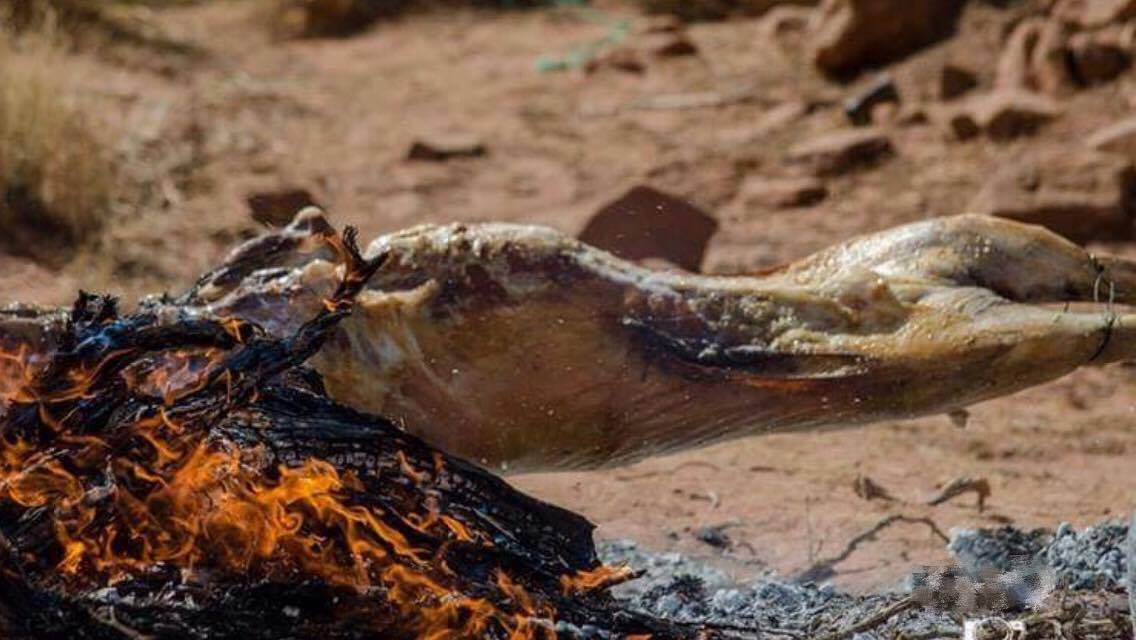 méchoui